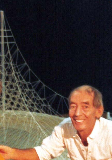 Conrad Roland visiting the spacenet manufacture of the COROCORD Raumnetz GmbH in 1988. The backround shows a 1:10 model of the highest spacenet of the world, the Super Spacenet in Ballfang.